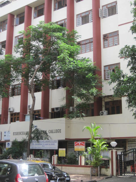 K C College, Mumbai building front.